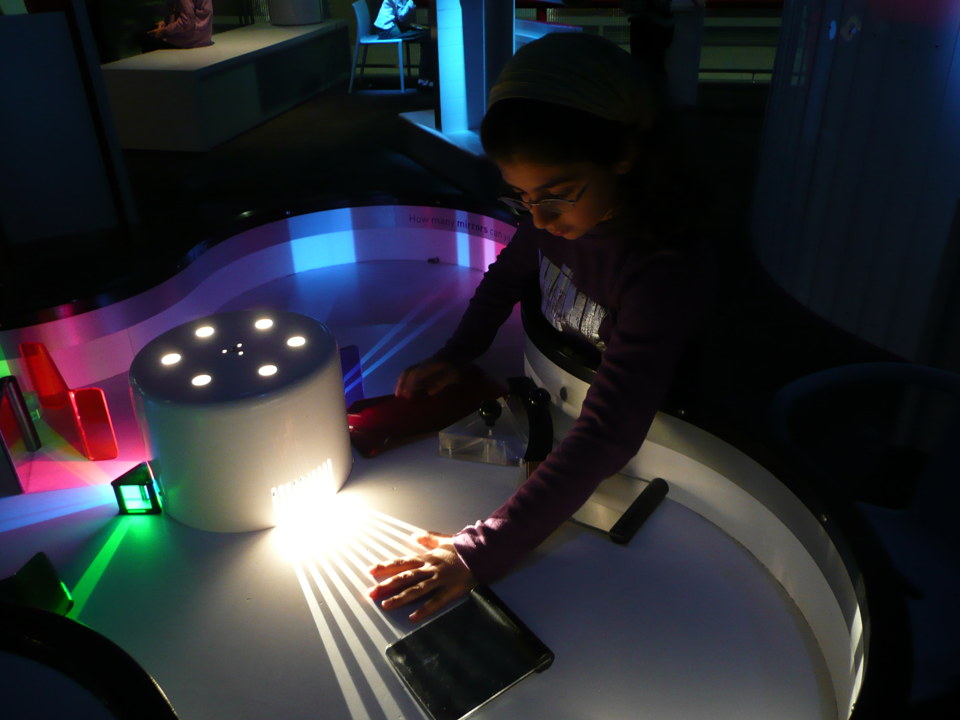 Photographs from Science Museum, London